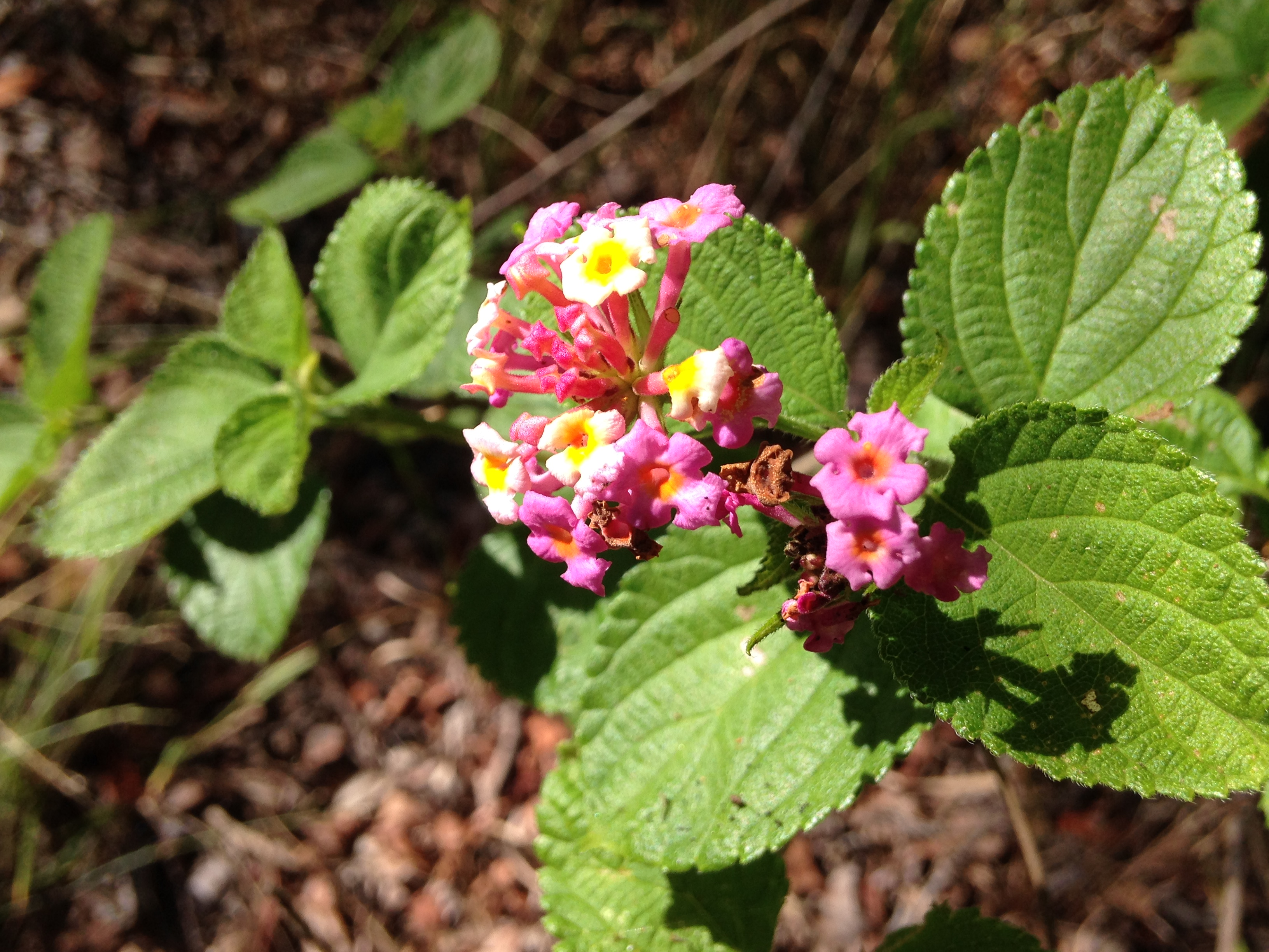 Lantana is a weed found in Eungella National Park, especially on roadsides and in disturbed areas